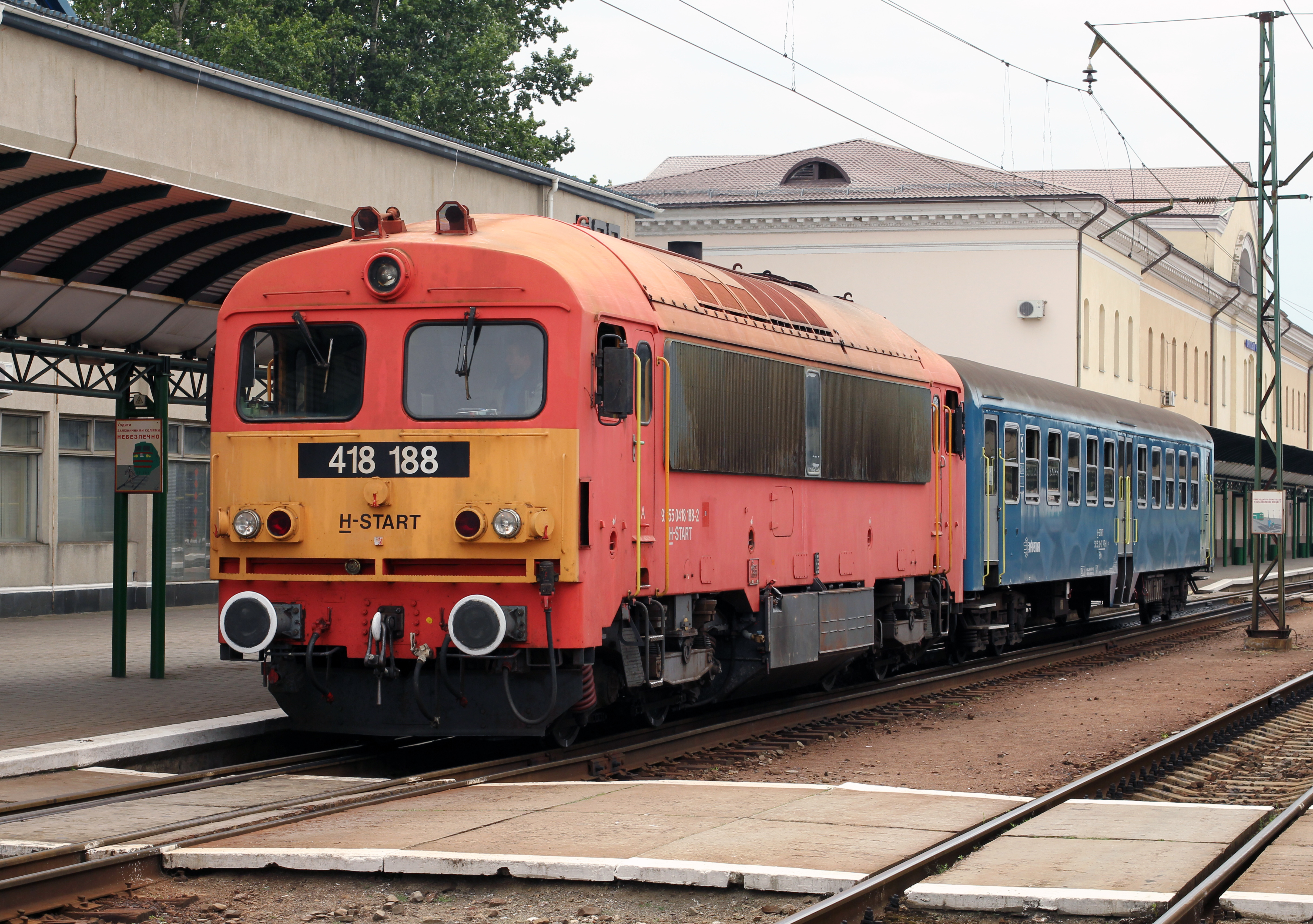 Hungarian diesel locomotive MÁV M41 418 188 in Chop railway station, Zakarpattia Oblast. Ukraine.